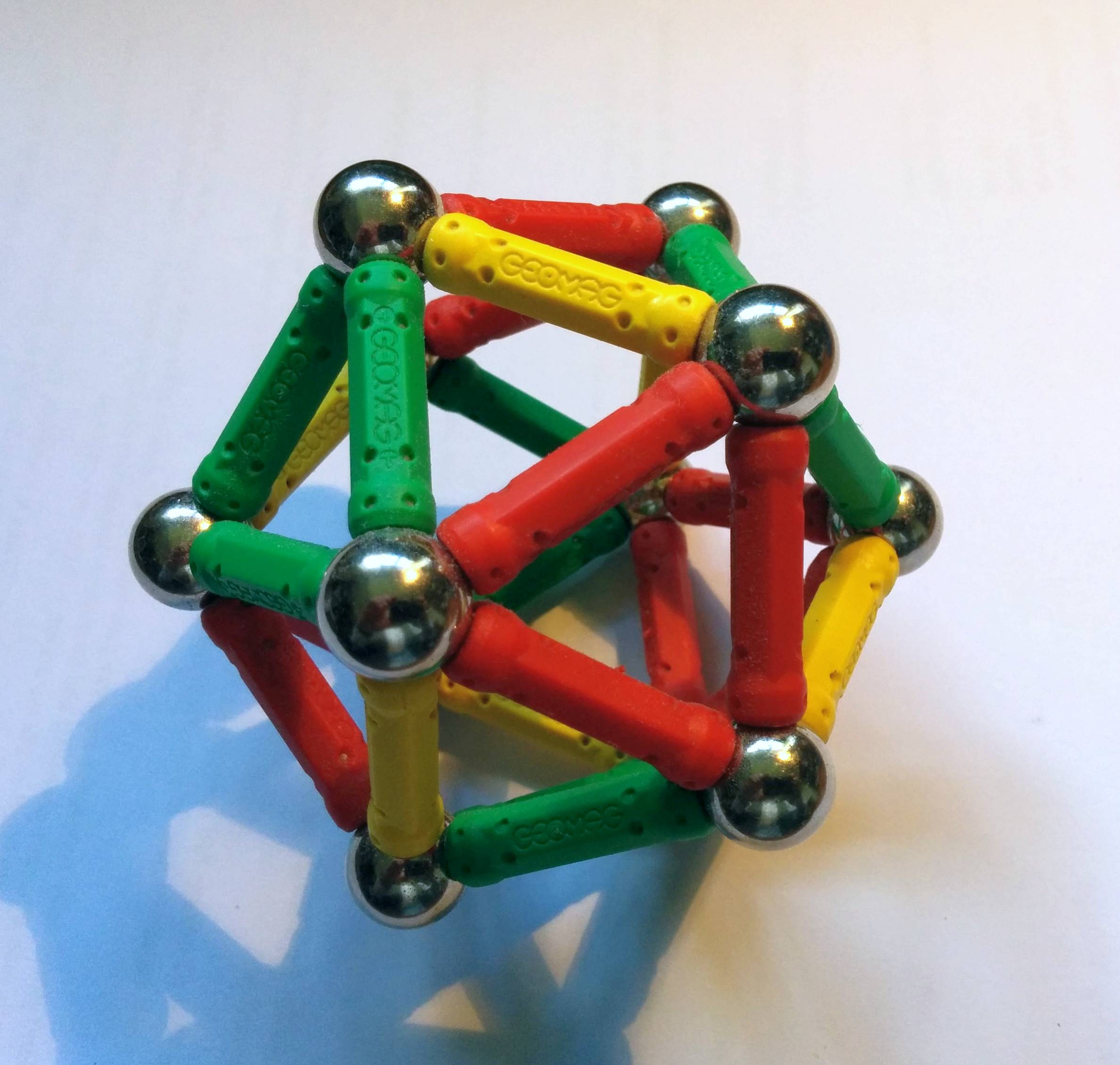 An icosahedron, made from Geomag, with the edges colored so that the rotations of the icosahedron, together with the operation of swapping the two balls at the ends of each yellow edge, act on the 12 balls as the permutation group M12